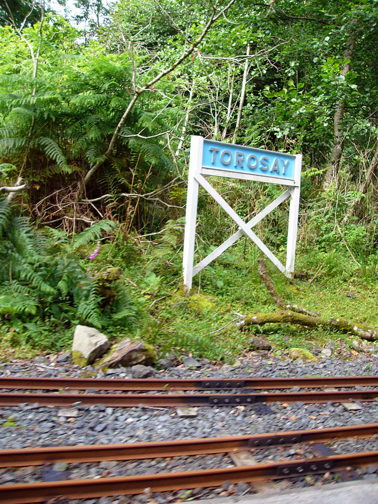 Torosay stop via the small train on the isle of Mull.